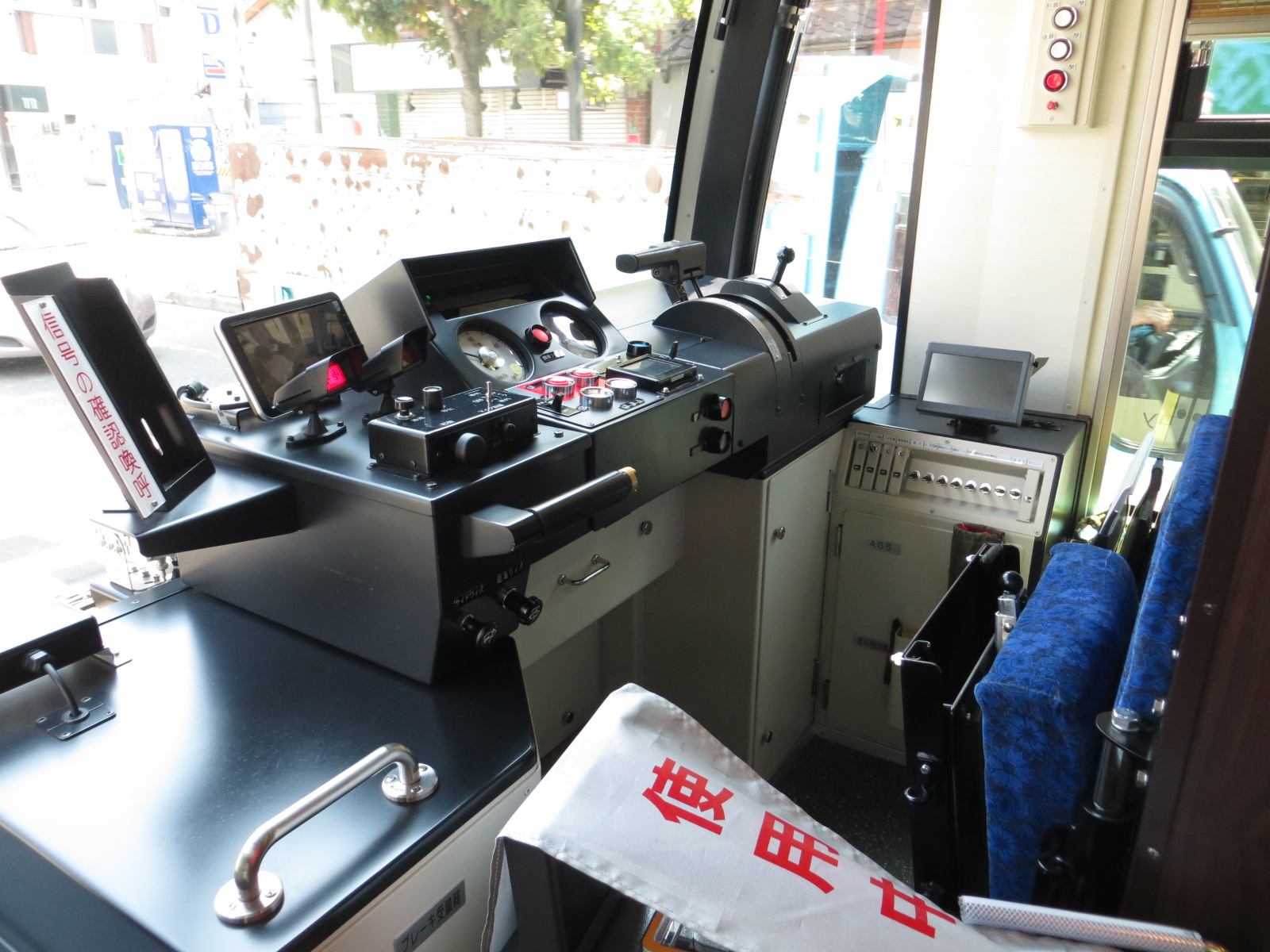 Cab from Hankai Tramway #1002.